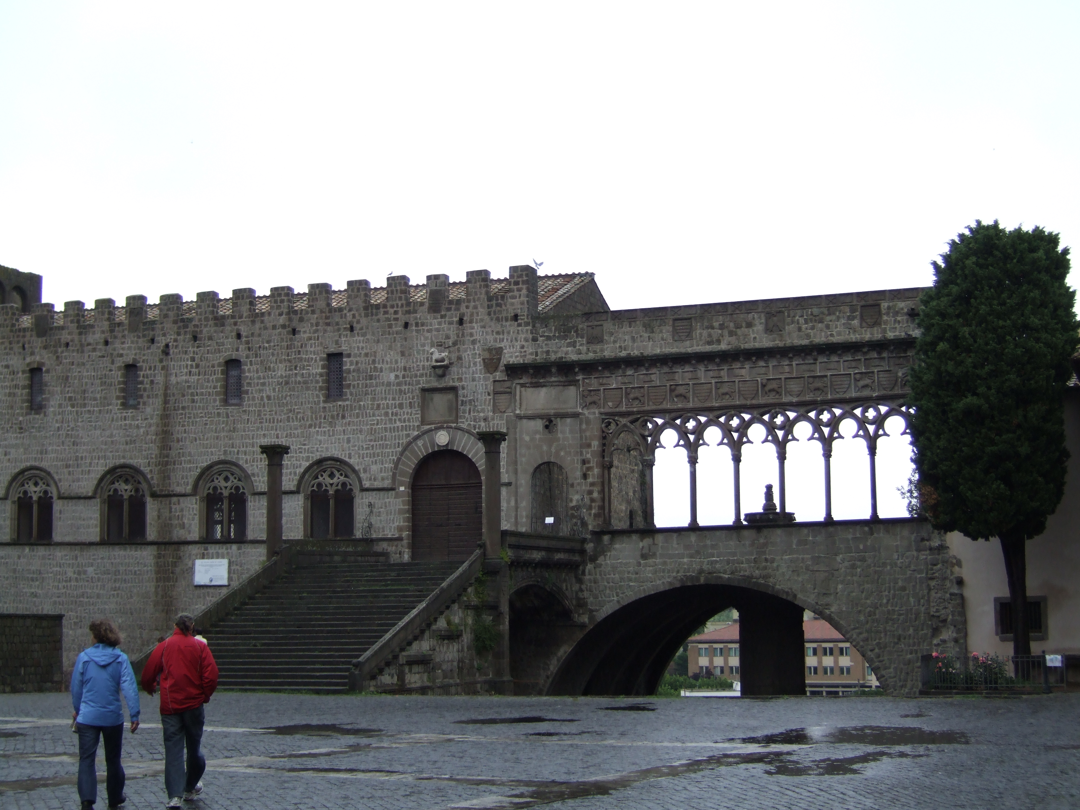 Lodge of the Popes' Palace in Viterbo (IT)